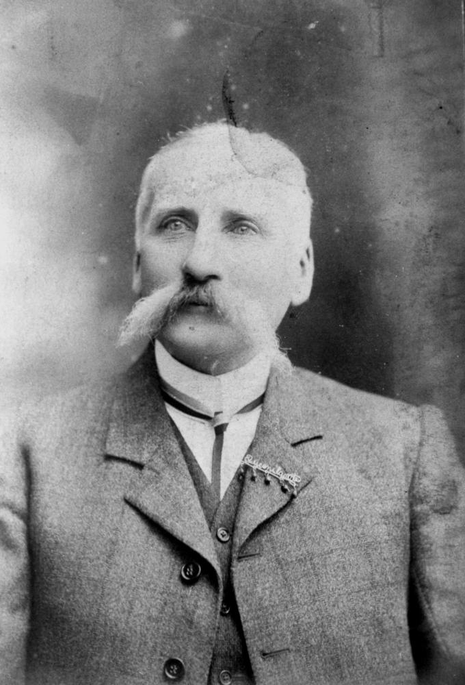 Creator: Unidentified Location: Queensland, Australia View this page at the State Library of Queensland: Information about State Library of Queensland?s collection